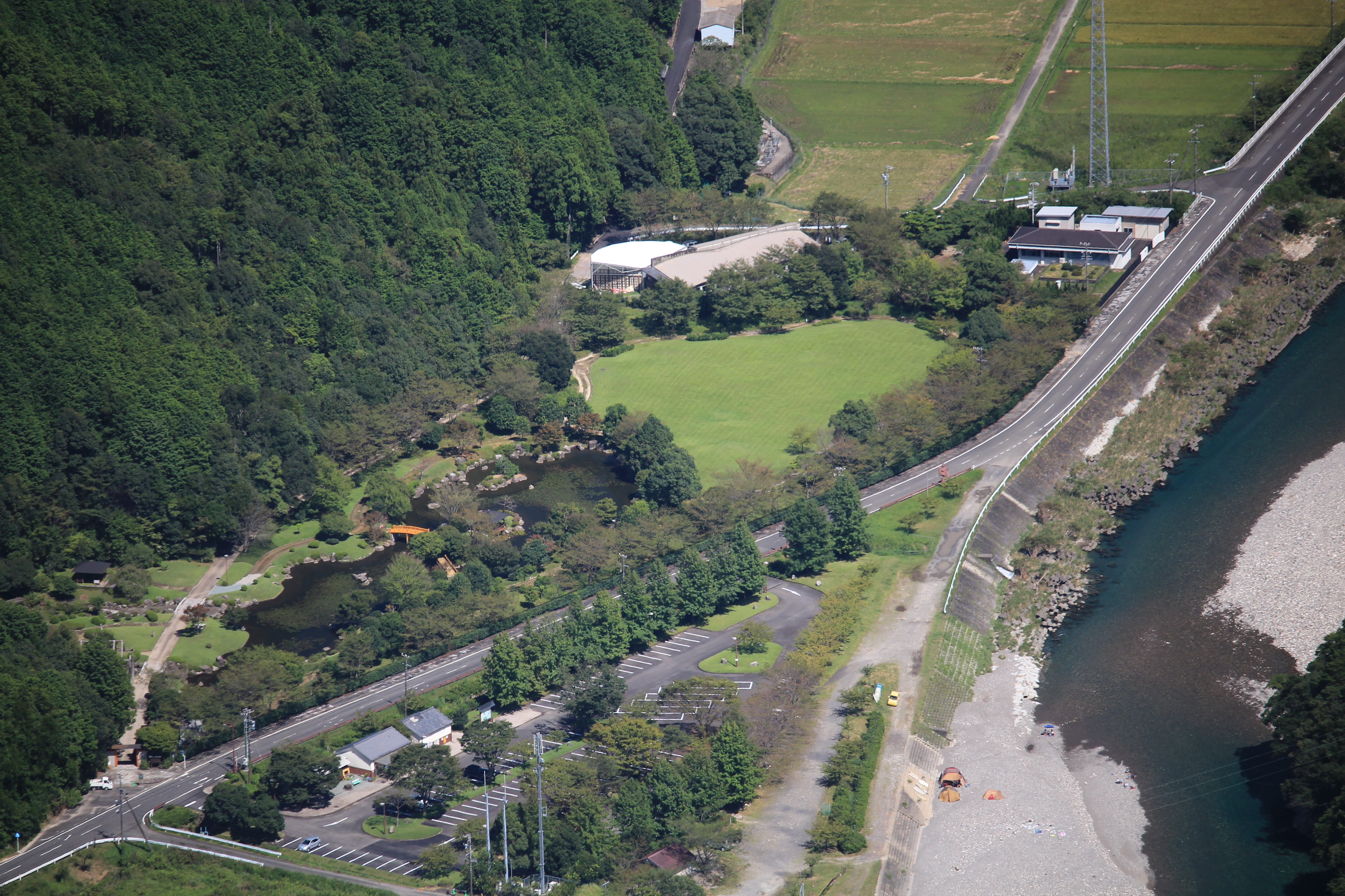 Tanemakigonbenosato and Choshi River seen from Mount Tengura, in Kihoku, Mie prefecture, Japan.